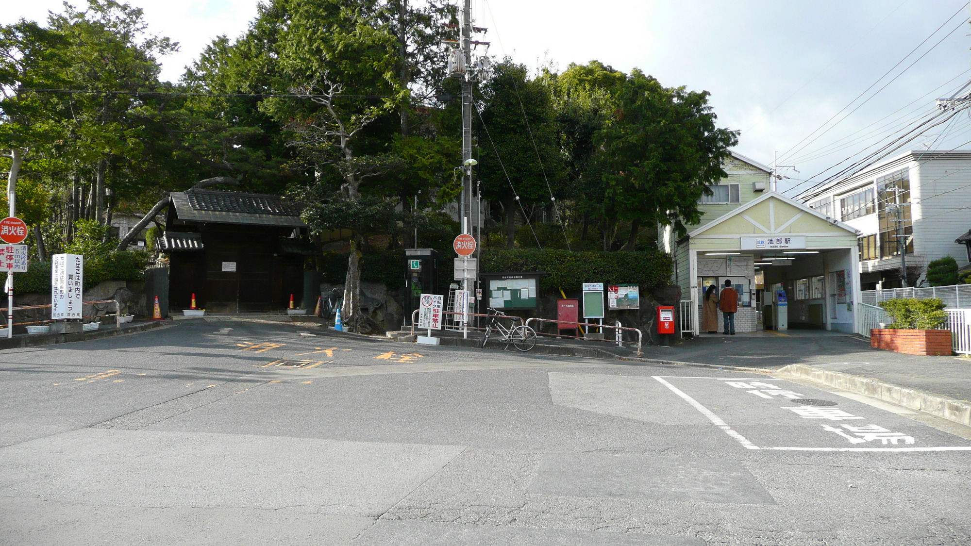 Kinki Nippon Railway,Tawaramoto Line,Ikebe Station and Kawai Town Hall. /（左側）河合町役場入口（右側）池部駅